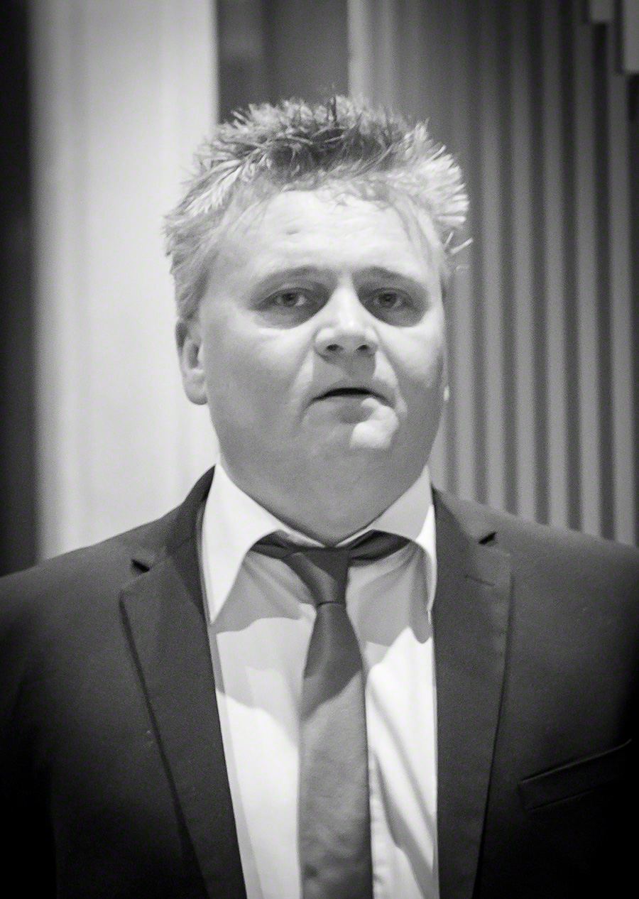 Jørn Eggum at Governor Øystein Olsen's annual address in February 2016